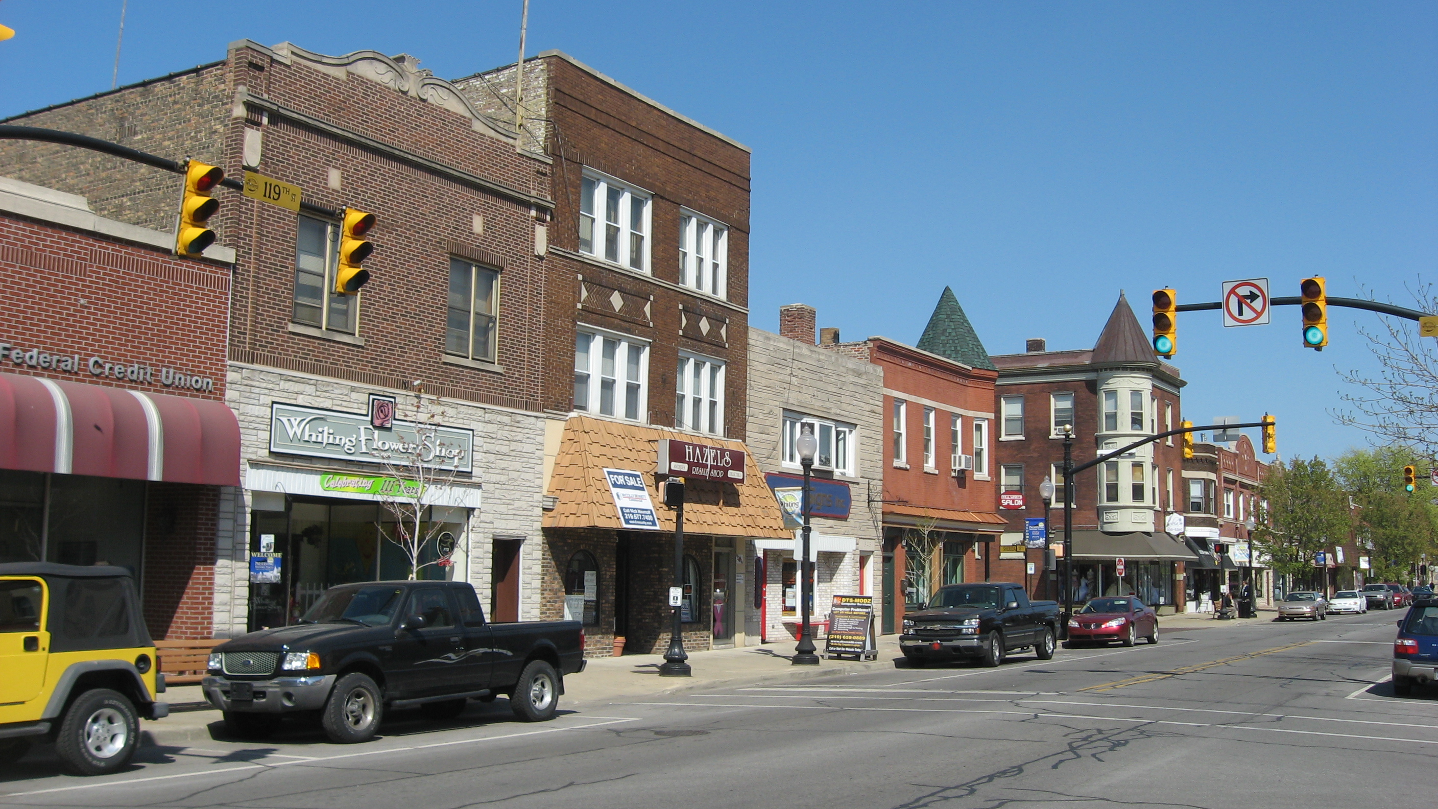 Buildings on the northern side of the 1300 block of 119th Street in Whiting, Indiana, United States. This block is part of the Whiting Commercial Historic District. Most of the pictured buildings were built in 1925.